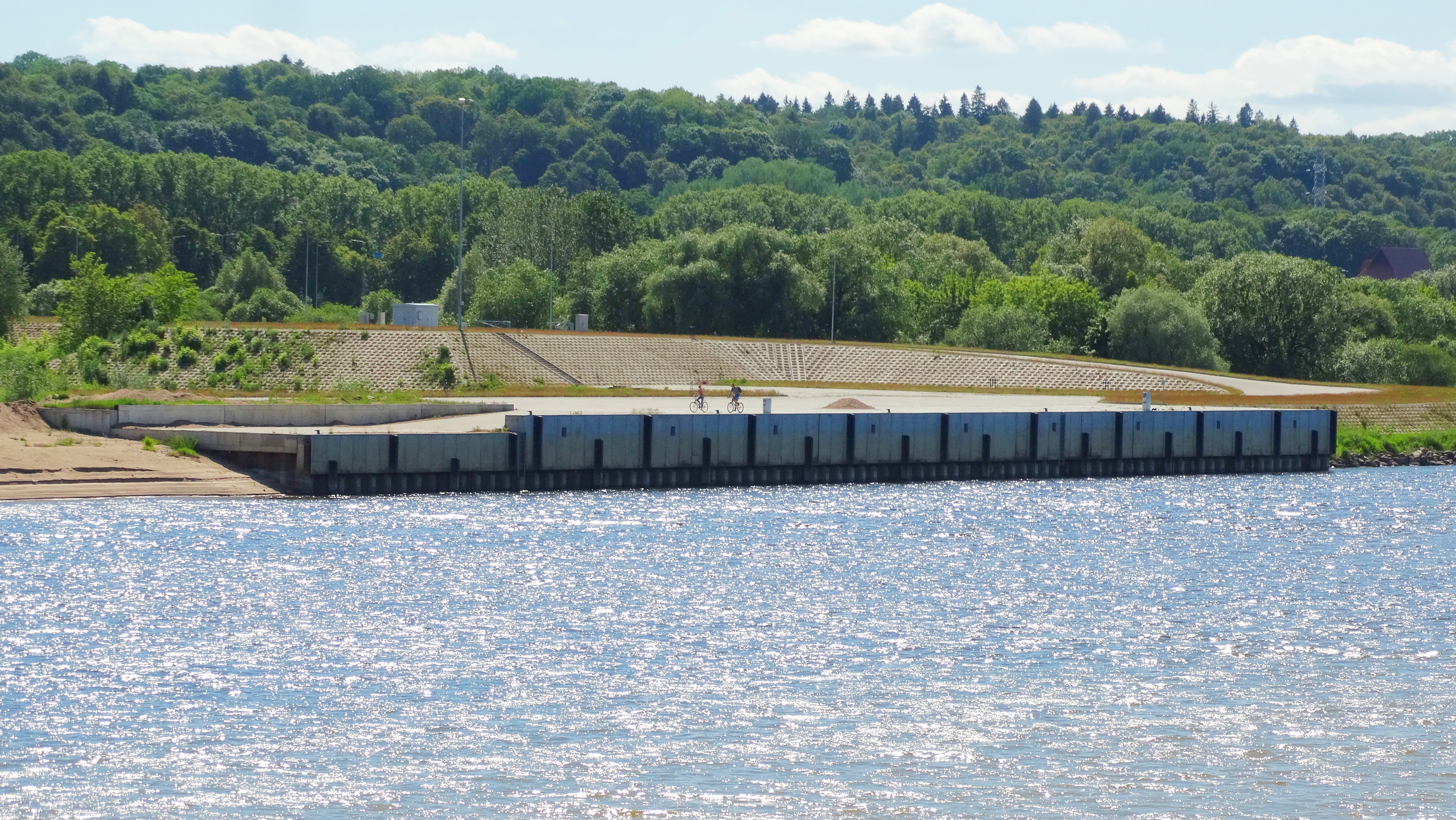 Neman River port, Marvelė, Kaunas, Lithuania